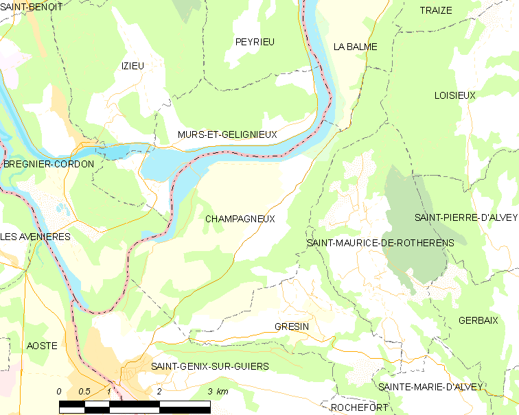 Map of French municipality